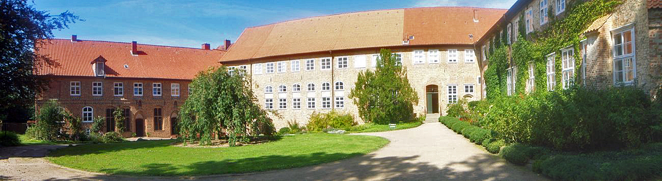 The monastary Ebstorf, Germany.